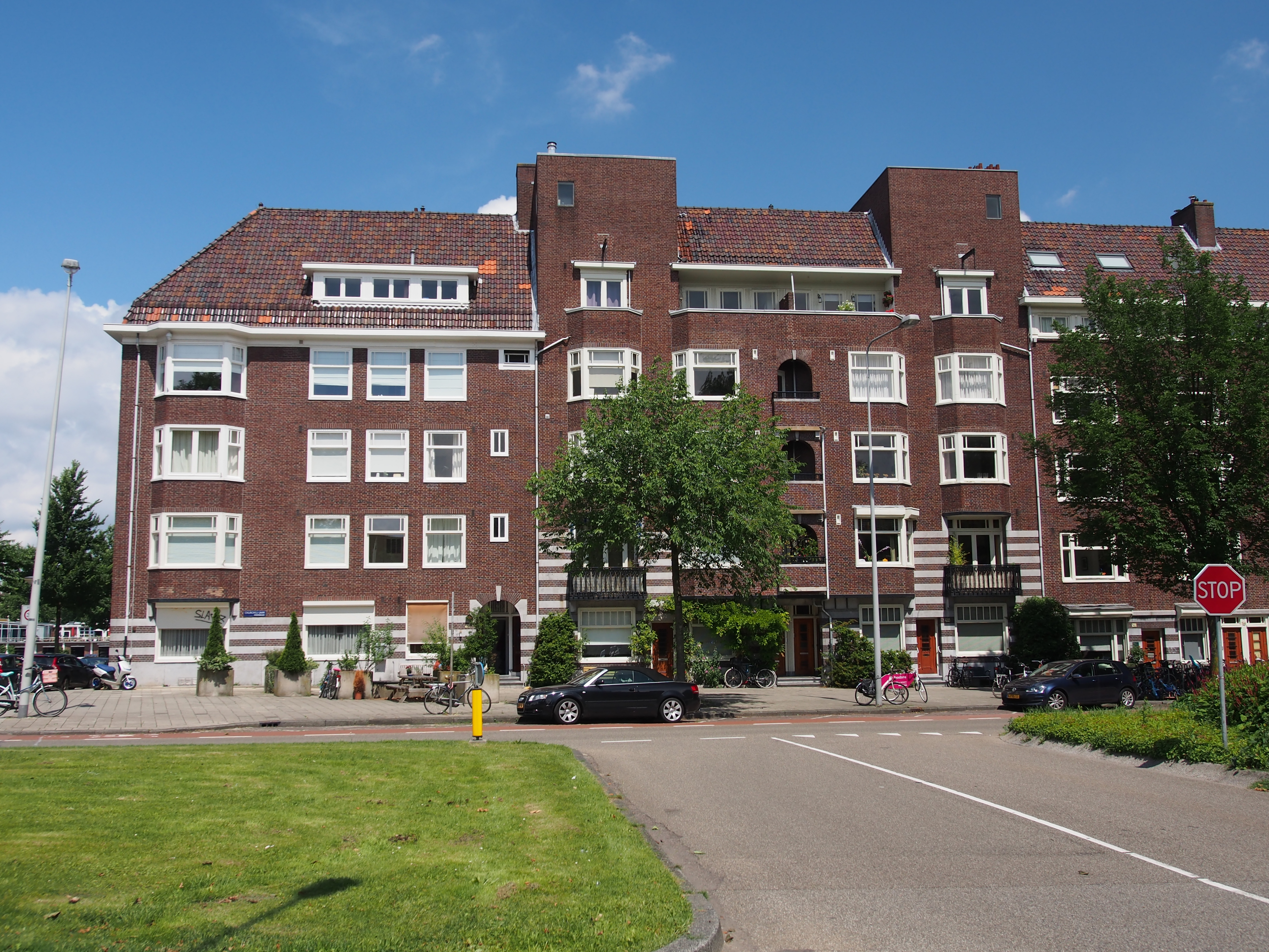 Photographed in Amsterdam.